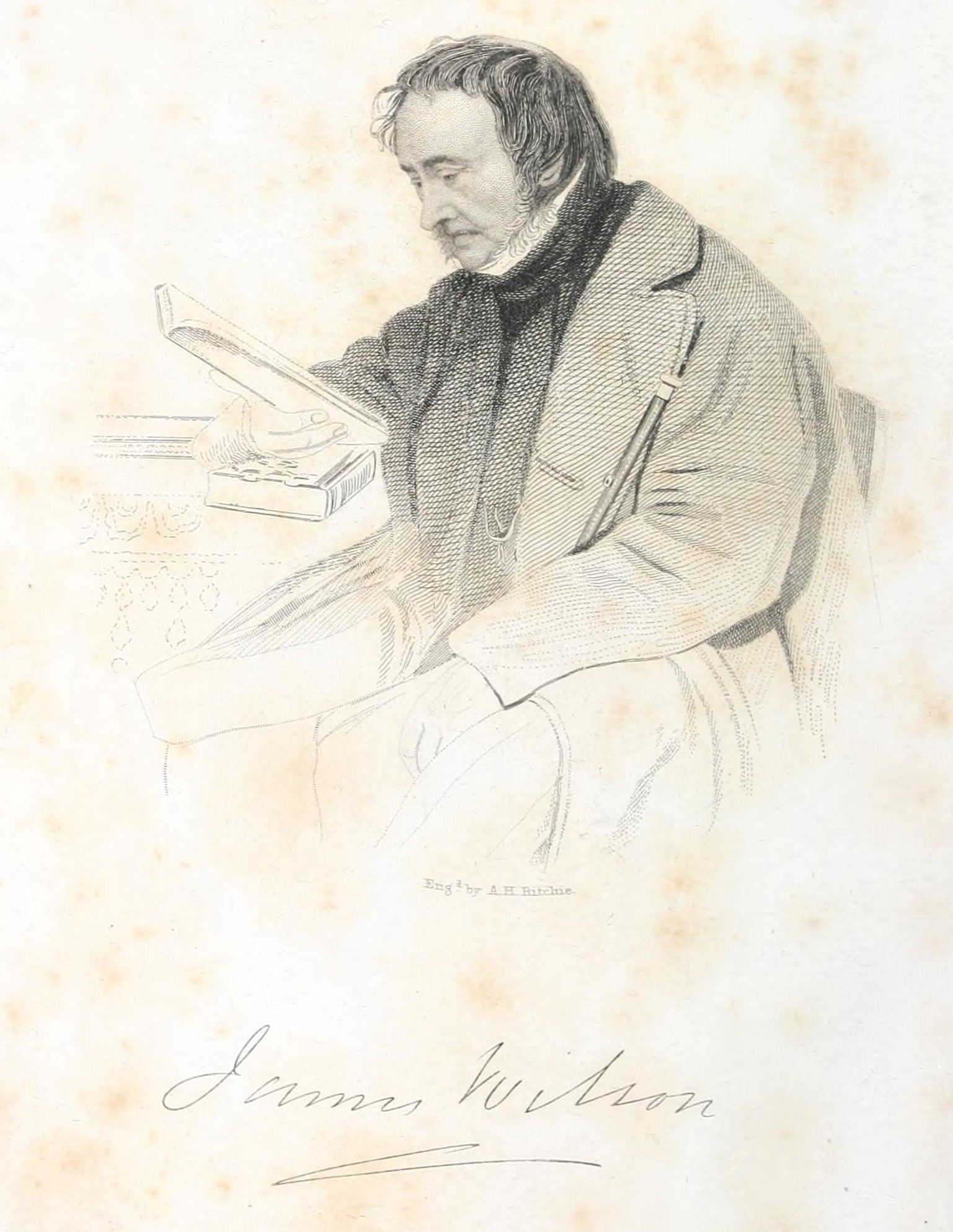 James Wilson, zoologist. Portrait, sitting and reading, from the biography "Memoirs of the life of James Wilson, Esq." by James Hamilton D.D., F.L.S.